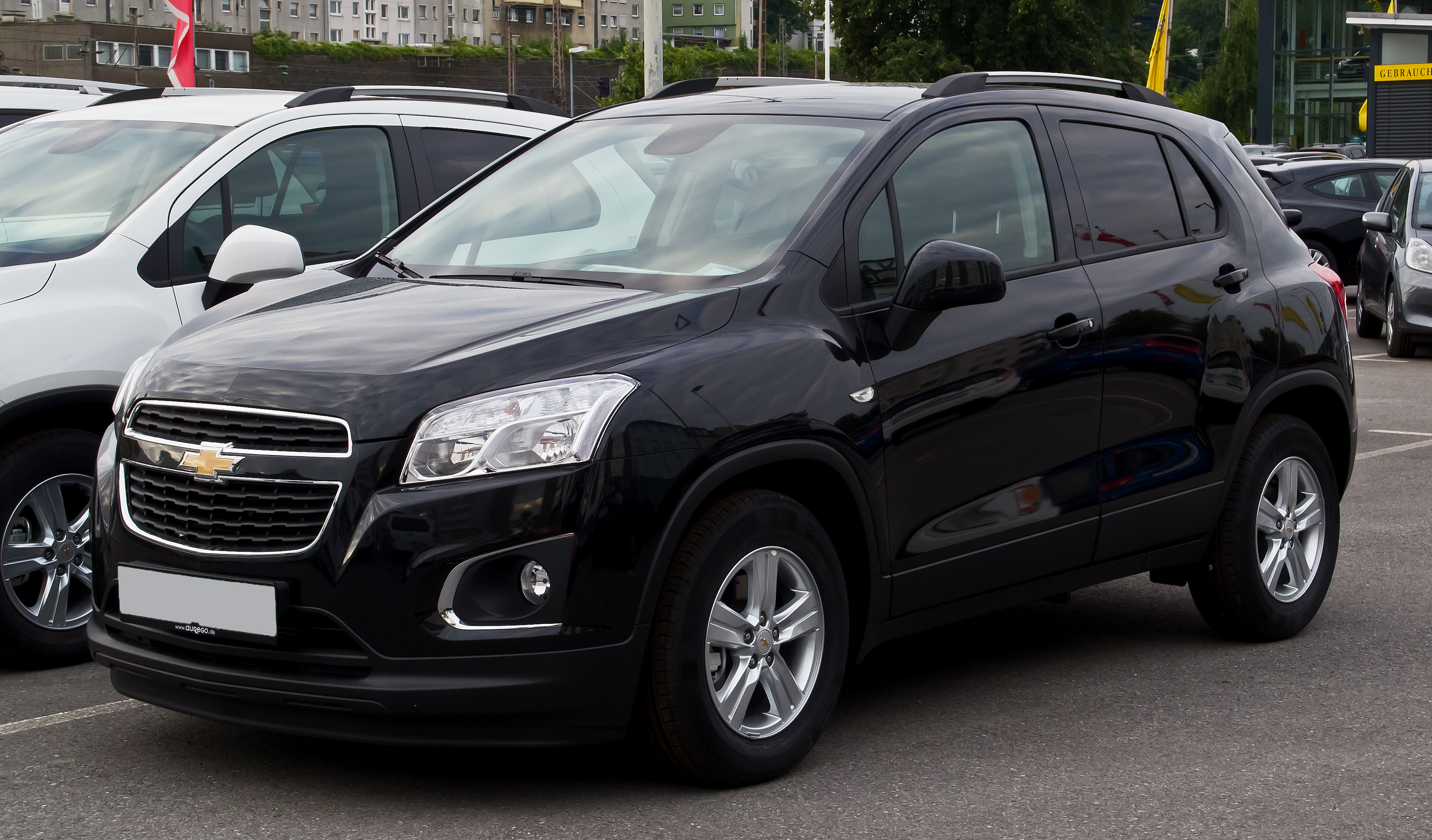 Chevrolet Trax LS+ 1.4 4WD